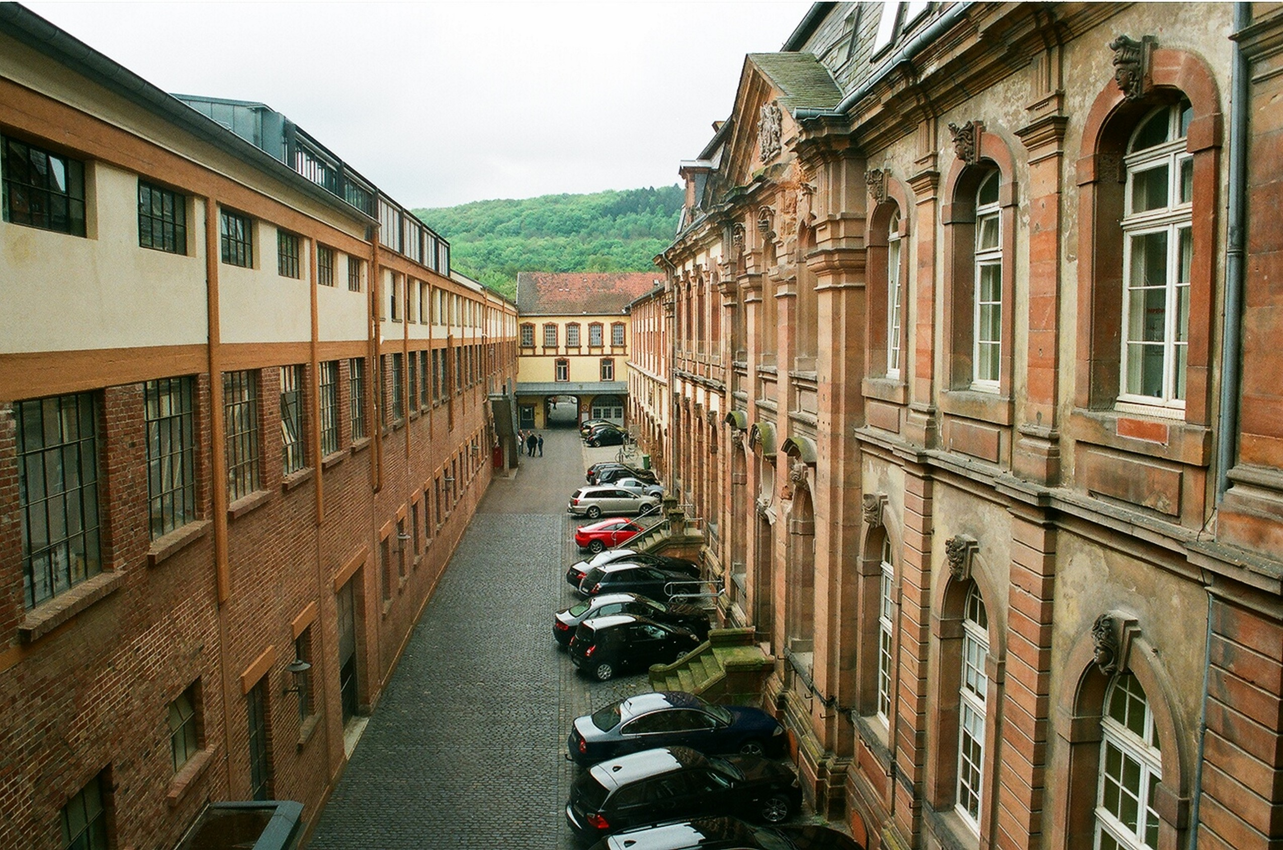 Mettlach, the stoneware factory